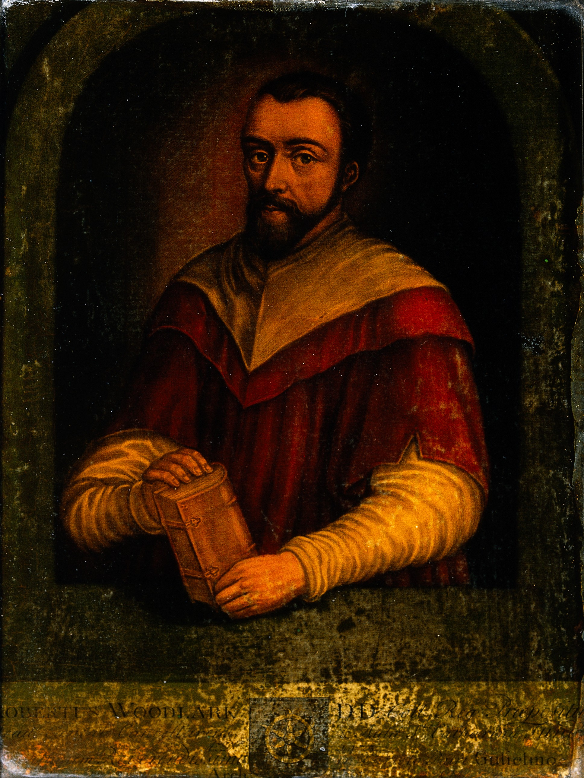 Robert Woodlark. Coloured mezzotint. Iconographic Collections